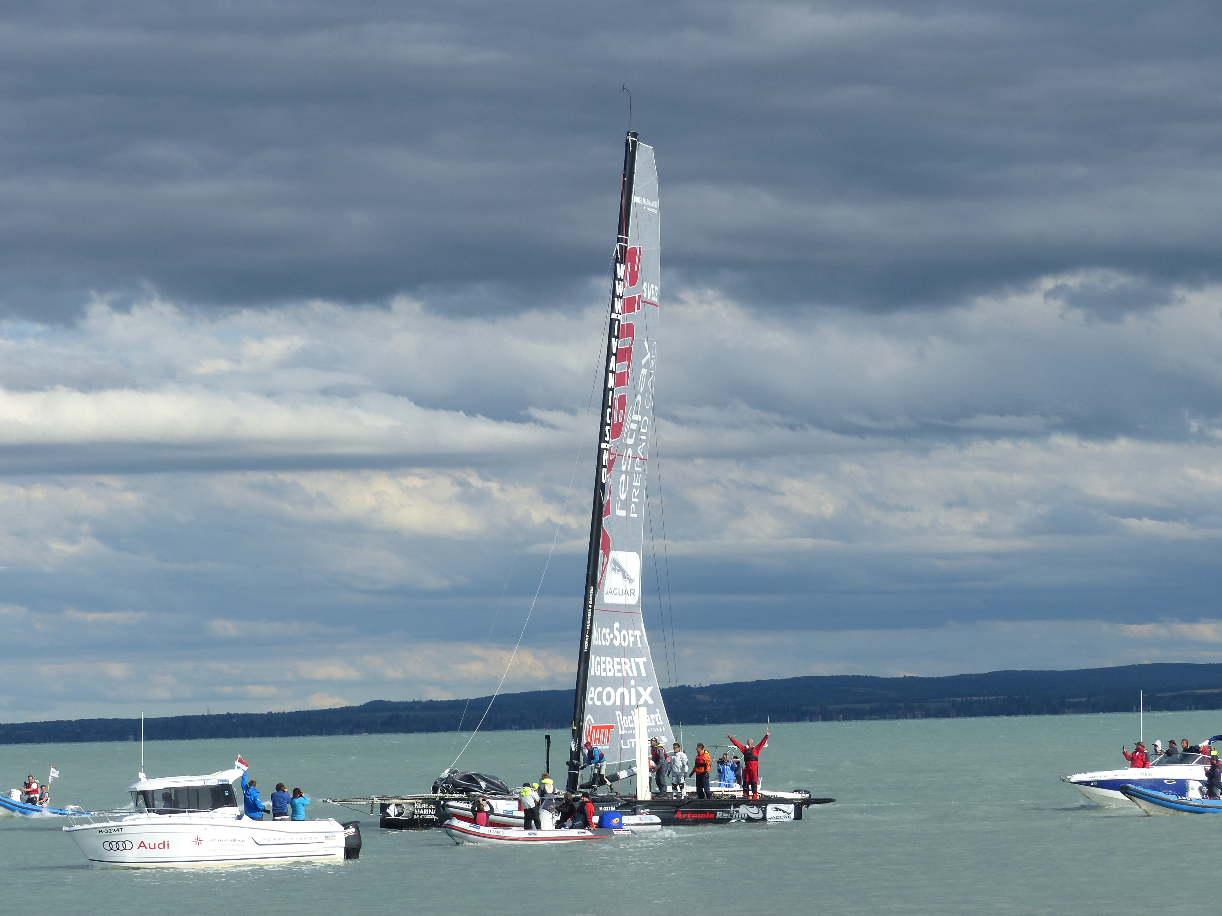 Litkey Farkas, winner of the 48. Kékszalag regatta. Litkey on the right side, in red jacket. Taken on the 14th of July, 2016.